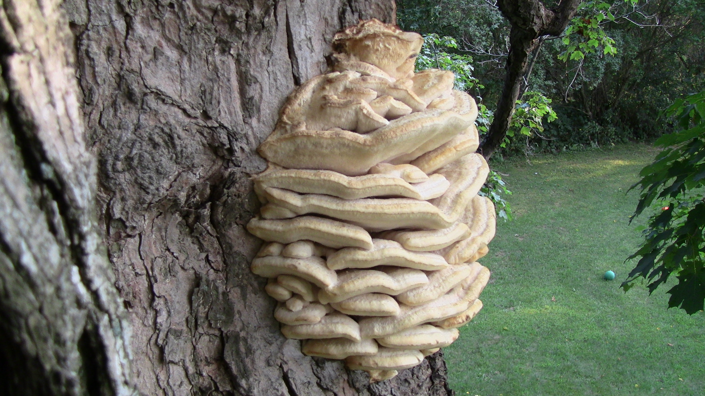 A fruit body of the fungus Climacodon septentrionalis (Fr.) P. Karst. Specimen photographed in King Ferry, New York, USA.